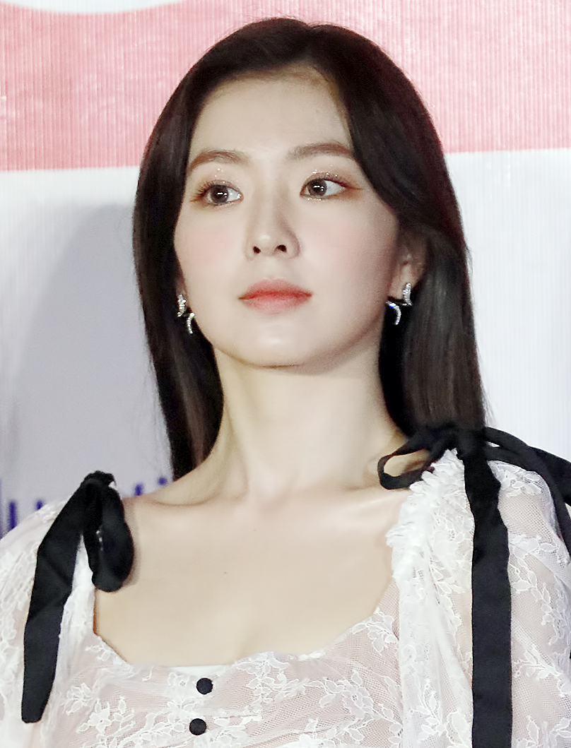 Irene Bae at Asia Artist Awards on November 26, 2019.